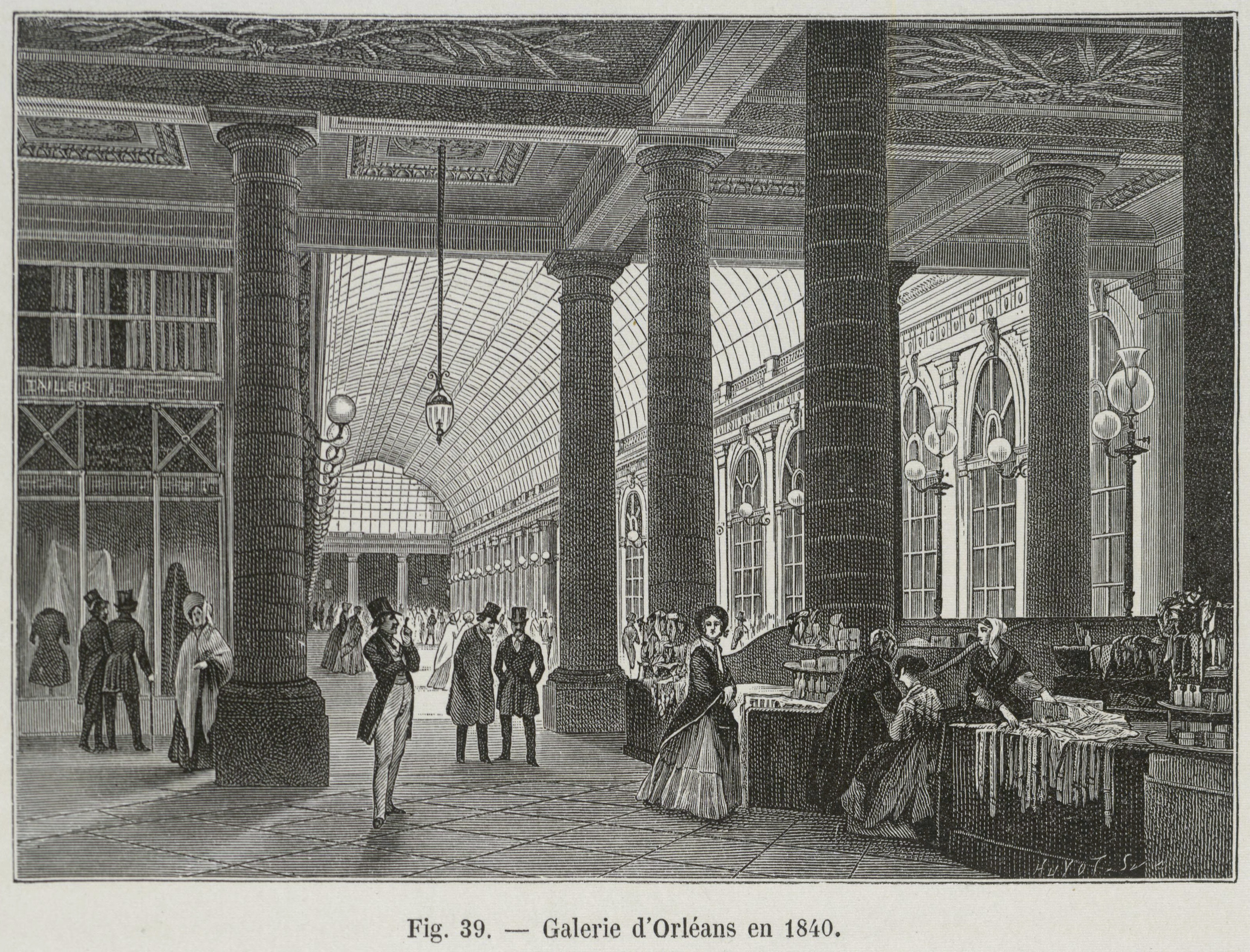 Located in the Palais Royal, the Galerie d'Orléans was built in 1829 in place of the Galeries de Bois, and extended across the interior court of the Palais. Its cover consisted of a glass roof (shown here) and it was said to be the most architecturally spectacular of all of the arcades at the time. However, due to its relatively poor location and competition with other arcades, the Galerie d'Orléans was one of the least successful arcades of the nineteenth century. It was partially demolished in 1935 in an attempt to restore life to the Palais-Royal, leaving an open courtyard in the first arrondissement.